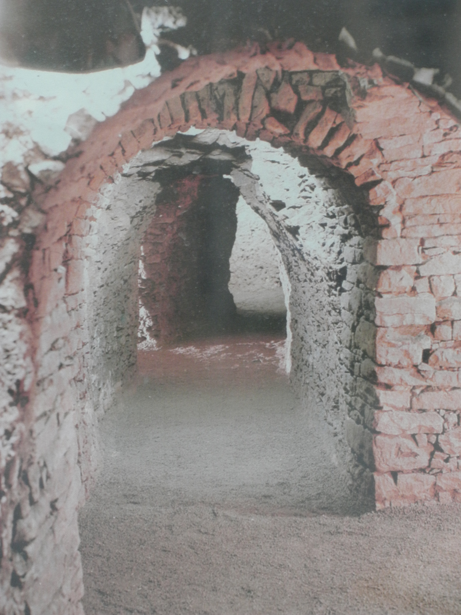 Tiefenkeller Air Defence in Zeitz in Saxony Anhalt